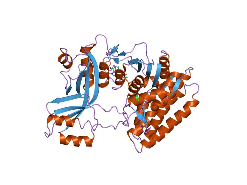 Cartoon representation of the molecular structure of protein registered with 2j0w code.